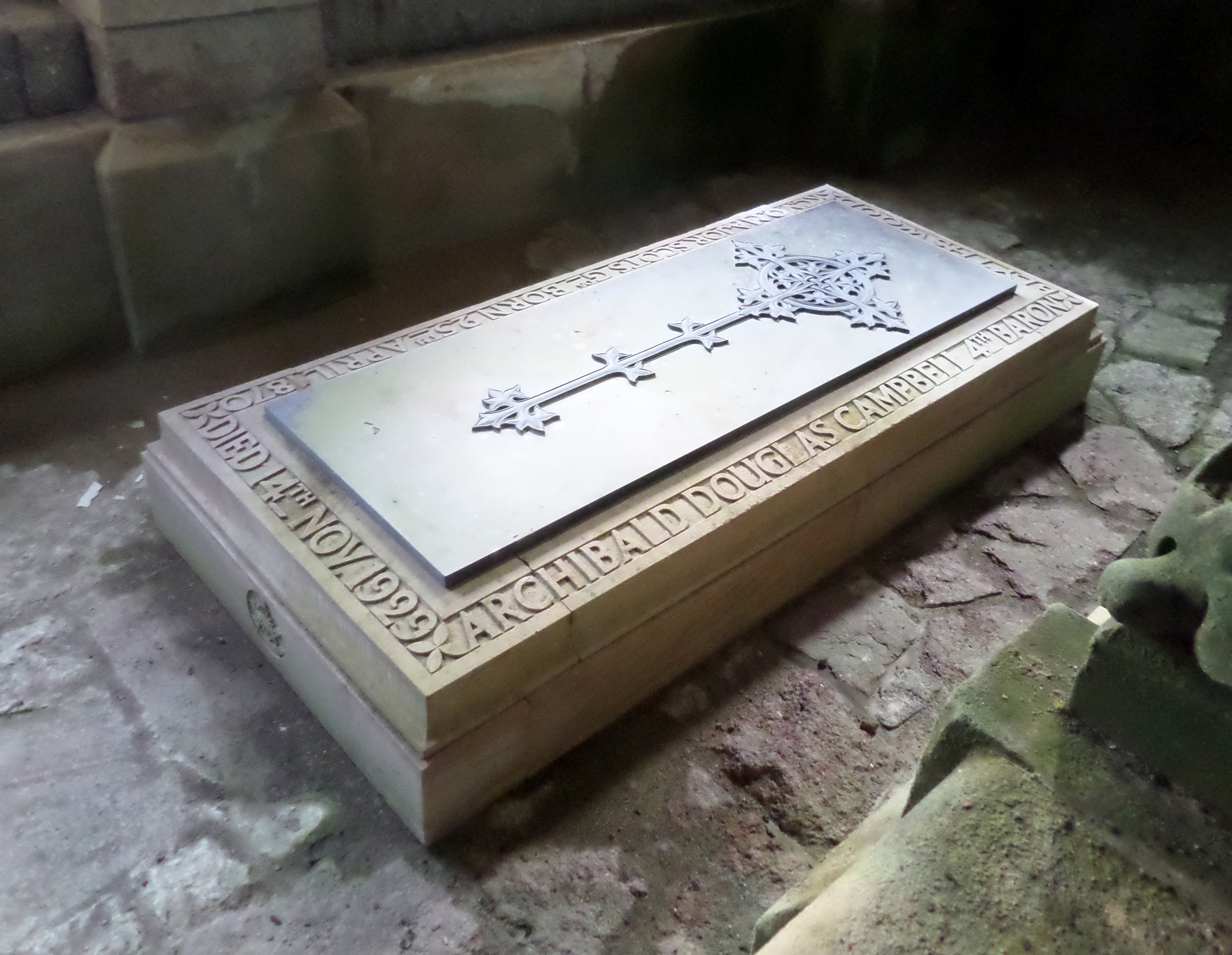 Memorial to Archibald Douglas Campbell, 4th Lord Blythswood. St Conan's Kirk. Loch Awe, Argyll and Bute, Scotland.